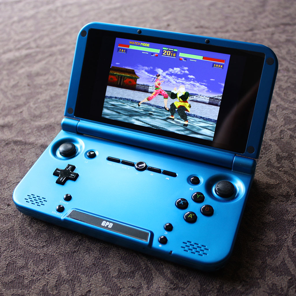 GPD XD running Virtua Fighter 2 (uoYabause emulator)